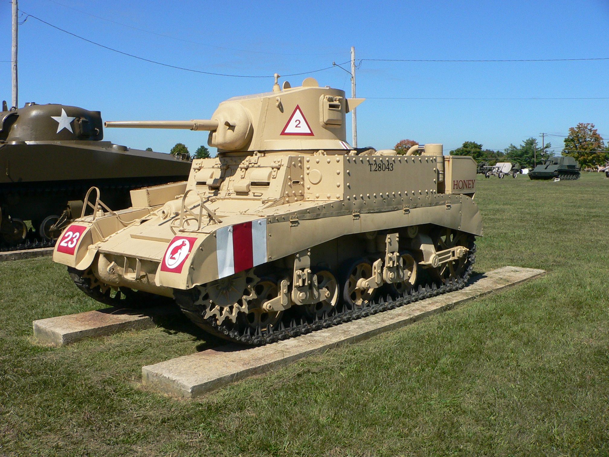 Picture taken by myself, Mark Pellegrini, at the United States Army Ordnance Museum (Aberdeen Proving Ground, MD)